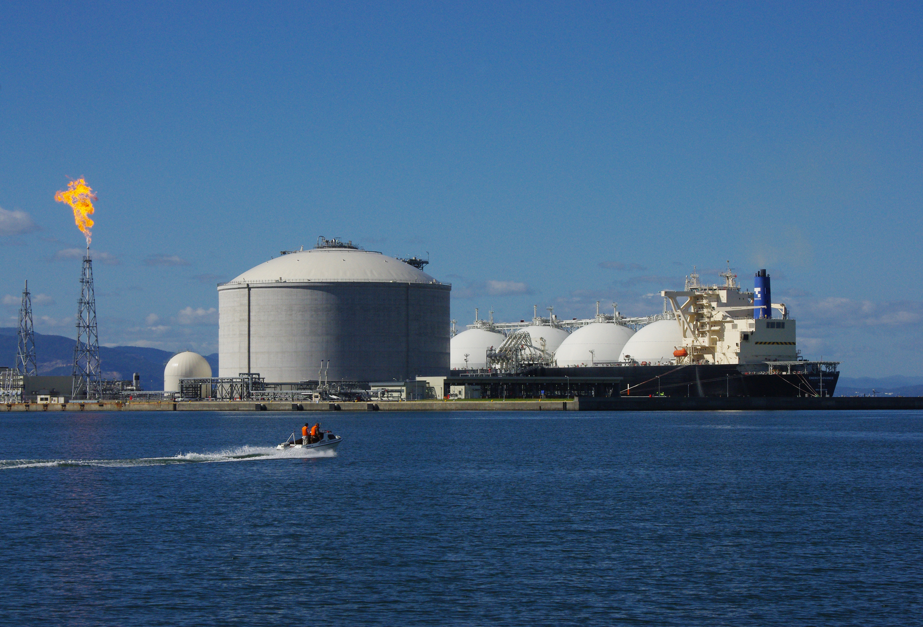 The LNG carrier Energy Advance in Ishikari Bay, Japan